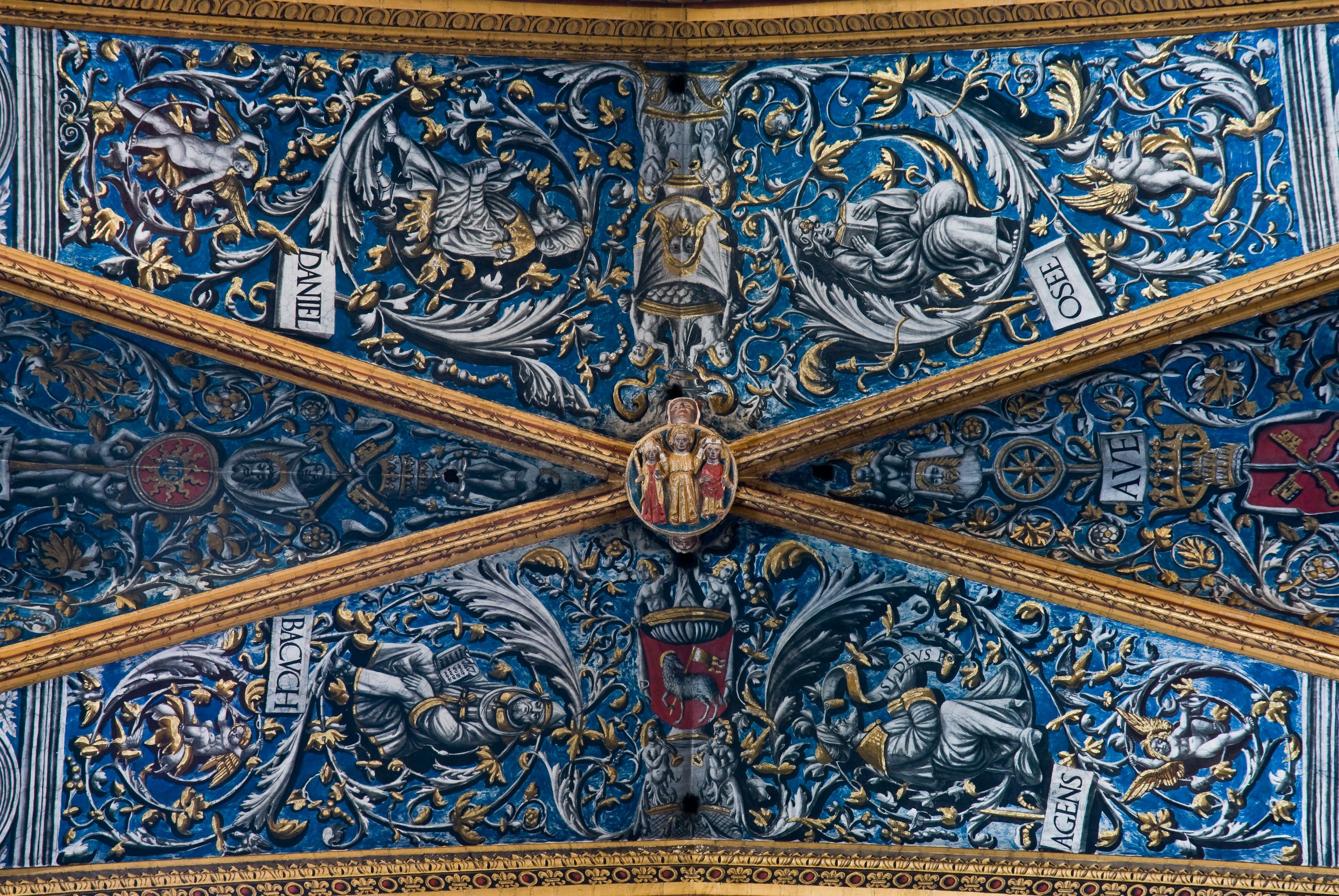 A part of the quadripartite cross-ribbed vault located 30m above the ground, painted between 1509 and 1512 (Albi cathedral, France)